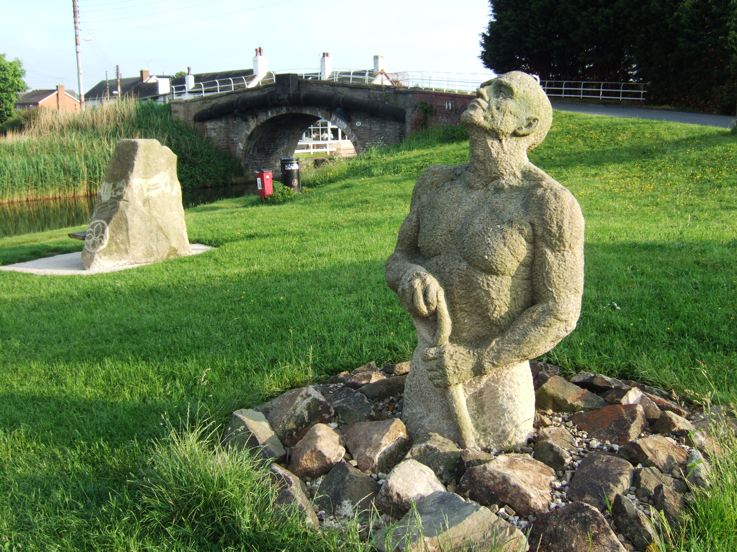 The "Halsall Navvy" by Thompson Dagnall, situated near the Saracen's Head pub in Halsall, Lancashire, England, where the first sod was cut on the Leeds and Liverpool Canal.